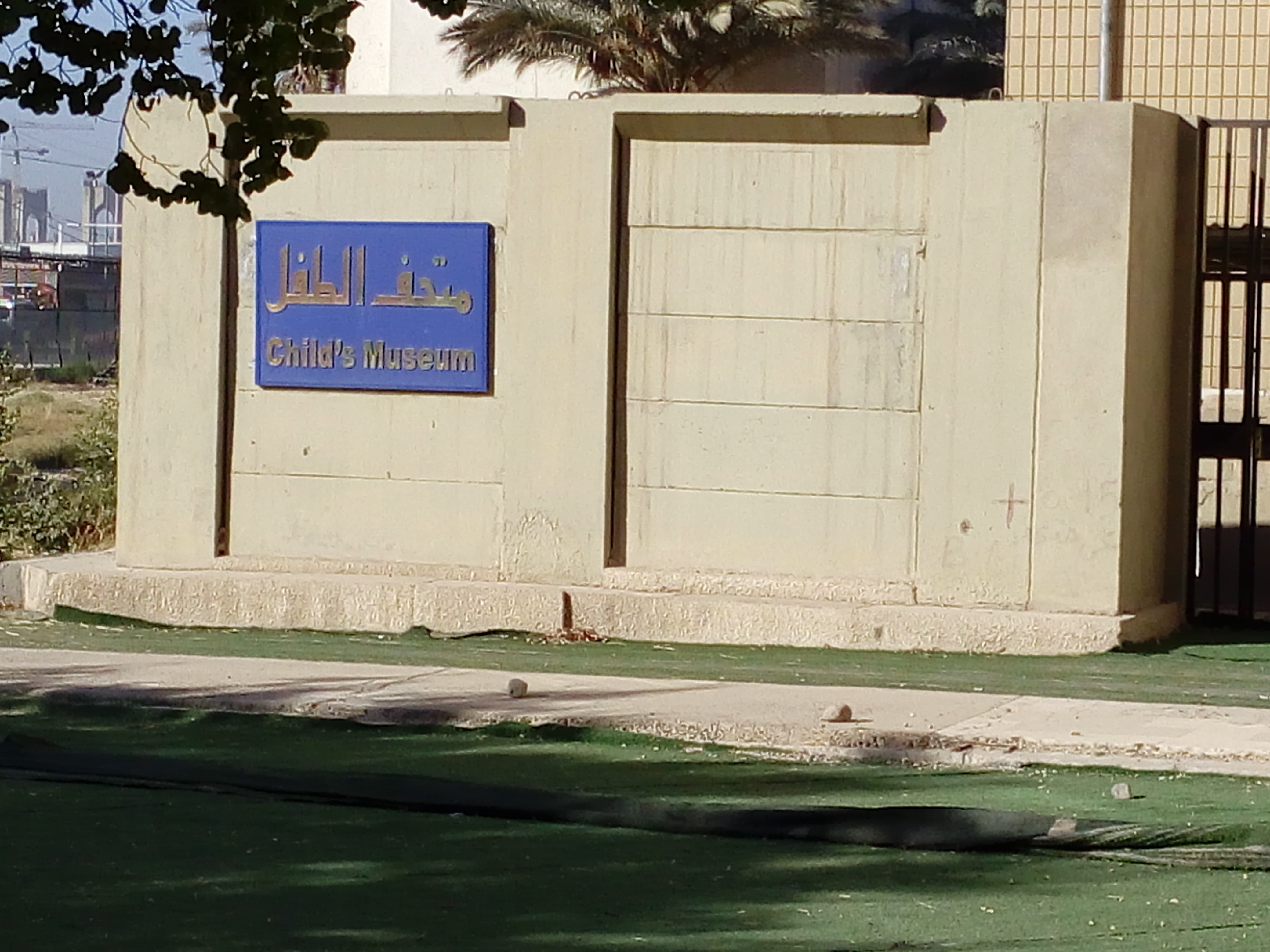 Child's Museum